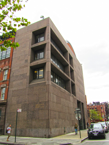 Hagop Kevorkian Center